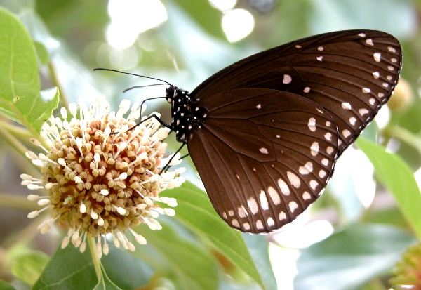 Double-branded Crow (Euploea sylvester) at Bangalore, India.